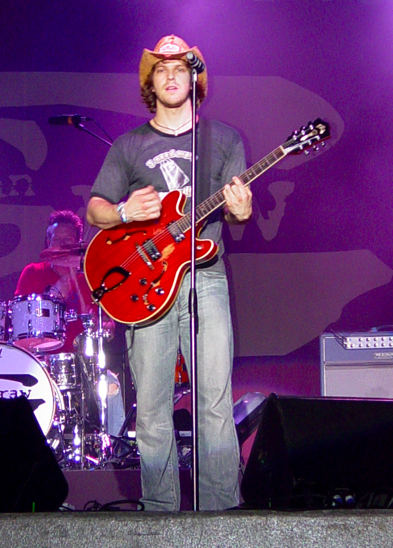 Gavin DeGraw, Georgia, 2005